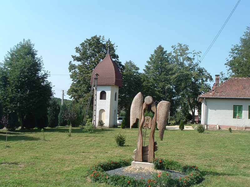 The Park of the New-Born Children in Felsőjánosfa, Hungary